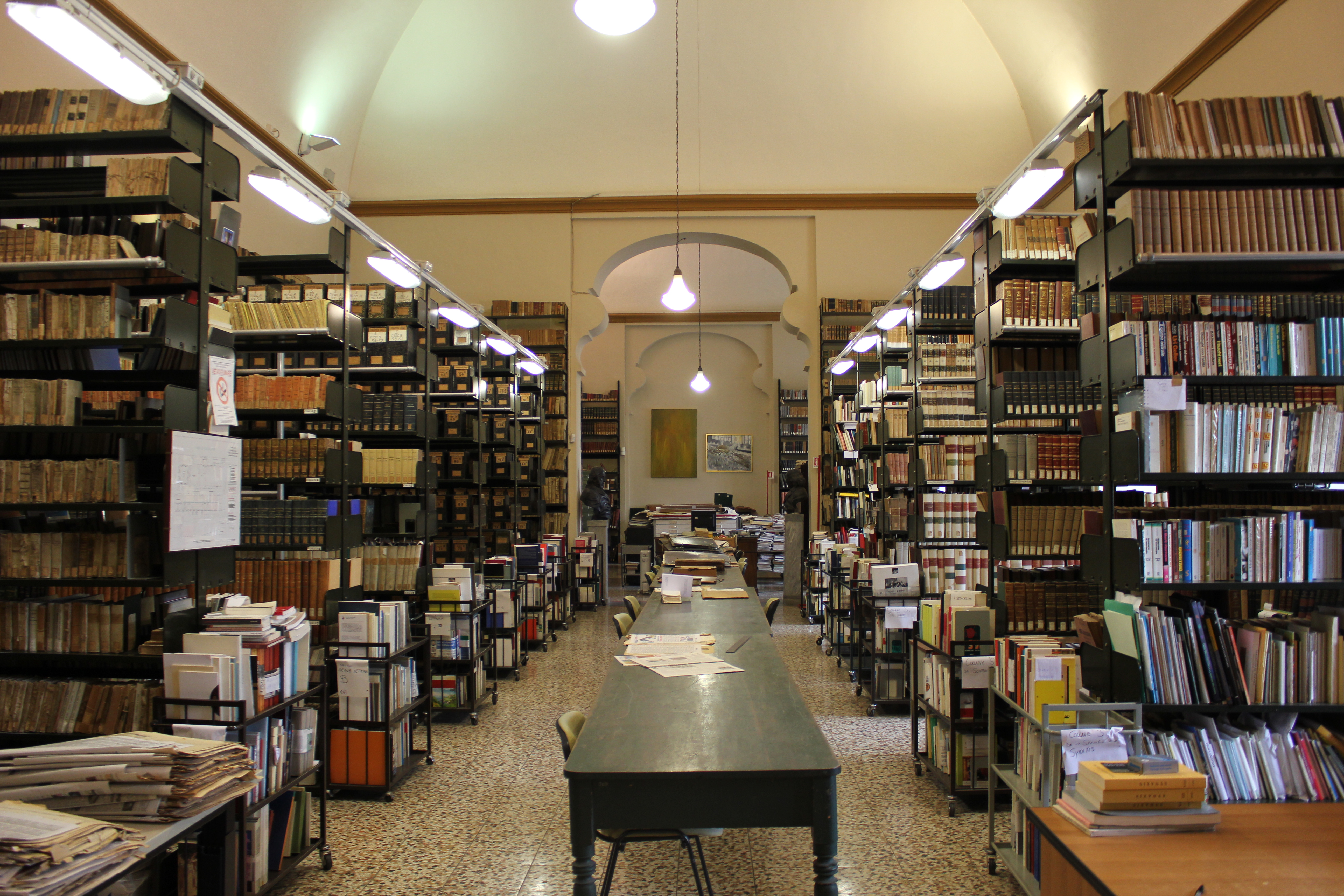 Catania, Biblioteche Riunite "Civica e A. Ursino Recupero”, Sala Barone Antonio Ursino Recupero